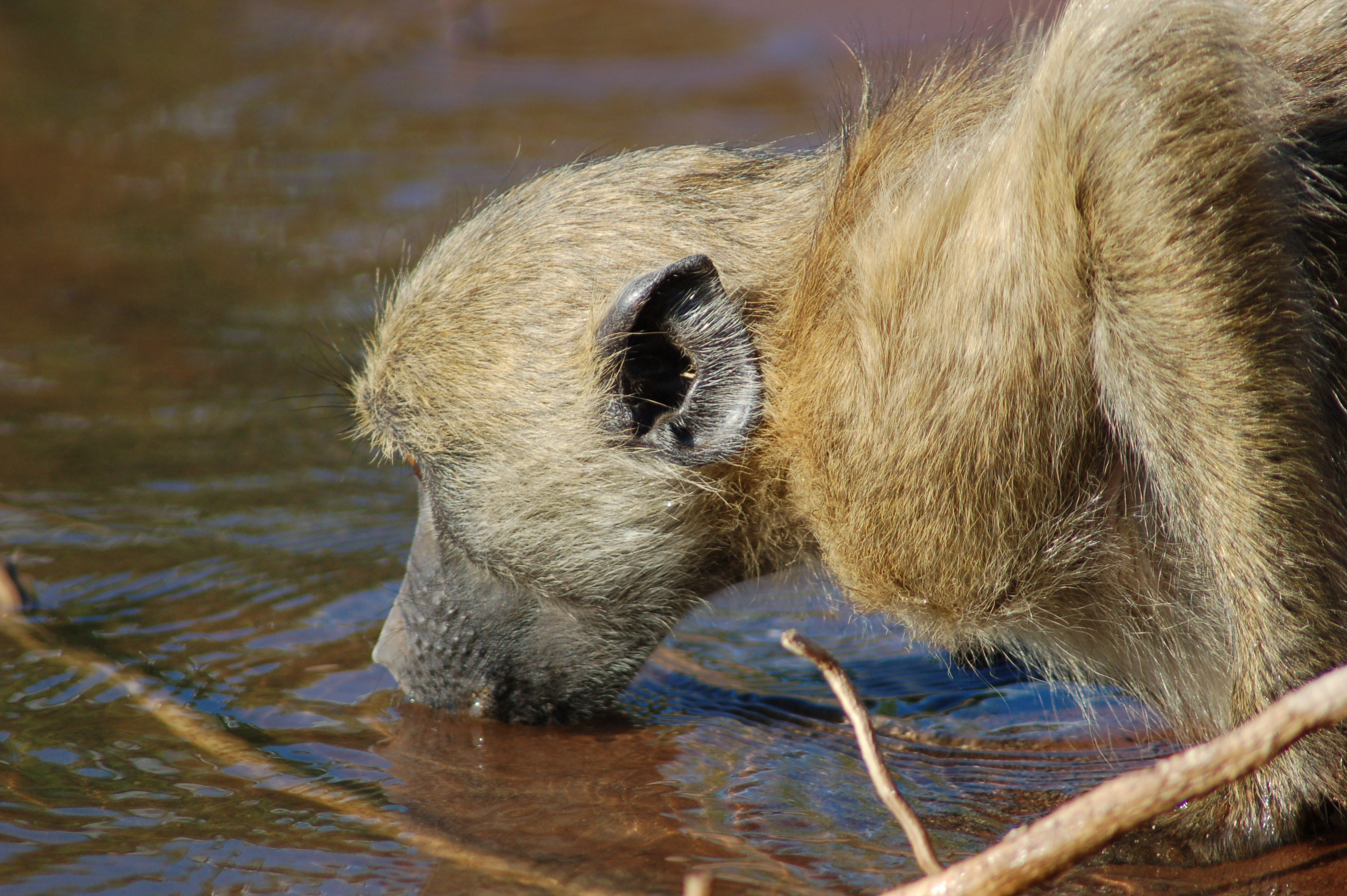 Chobe River Front, Botswana